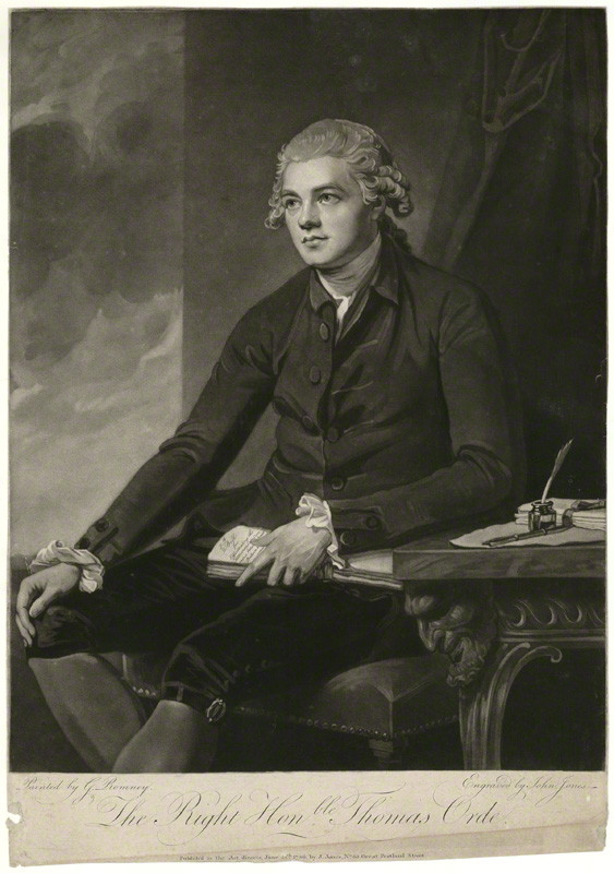 Thomas Orde-Powlett 1st Baron Bolton